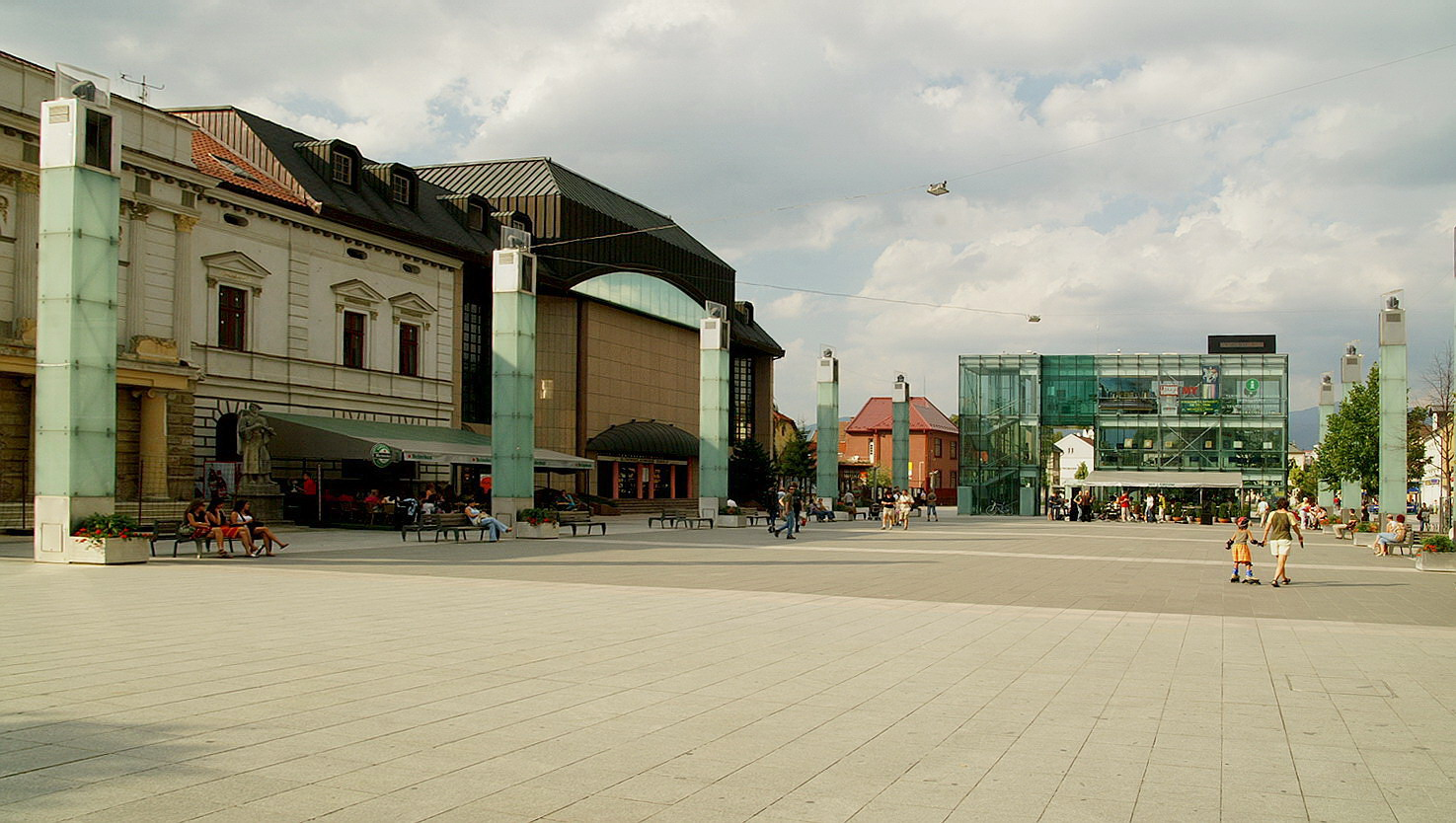 Theater in Martin (SVK)